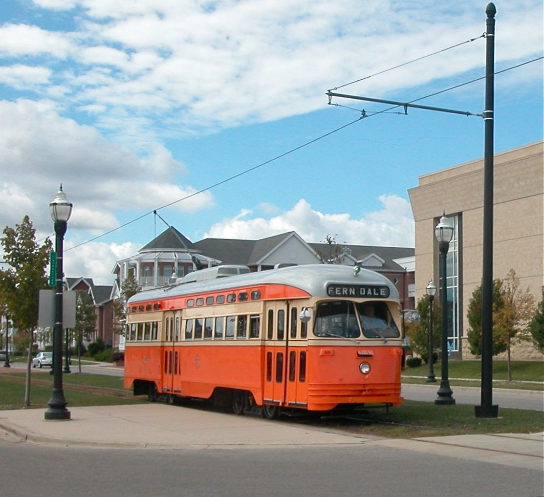 Kenosha streetcar 4615 (ex-Toronto 4615), painted in the colors of the former Johnstown Traction Company (of Johnstown, Pennsylvania) and displaying a historic Johnstown destination (Ferndale) on its rollsign. It is eastbound on 56th Street at 1st Avenue, in 2005.